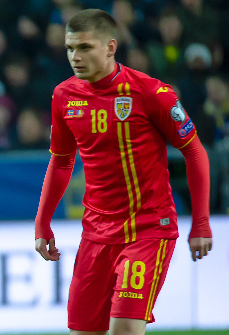 UEFA EURO qualifiers Sweden vs Romaina 20190323